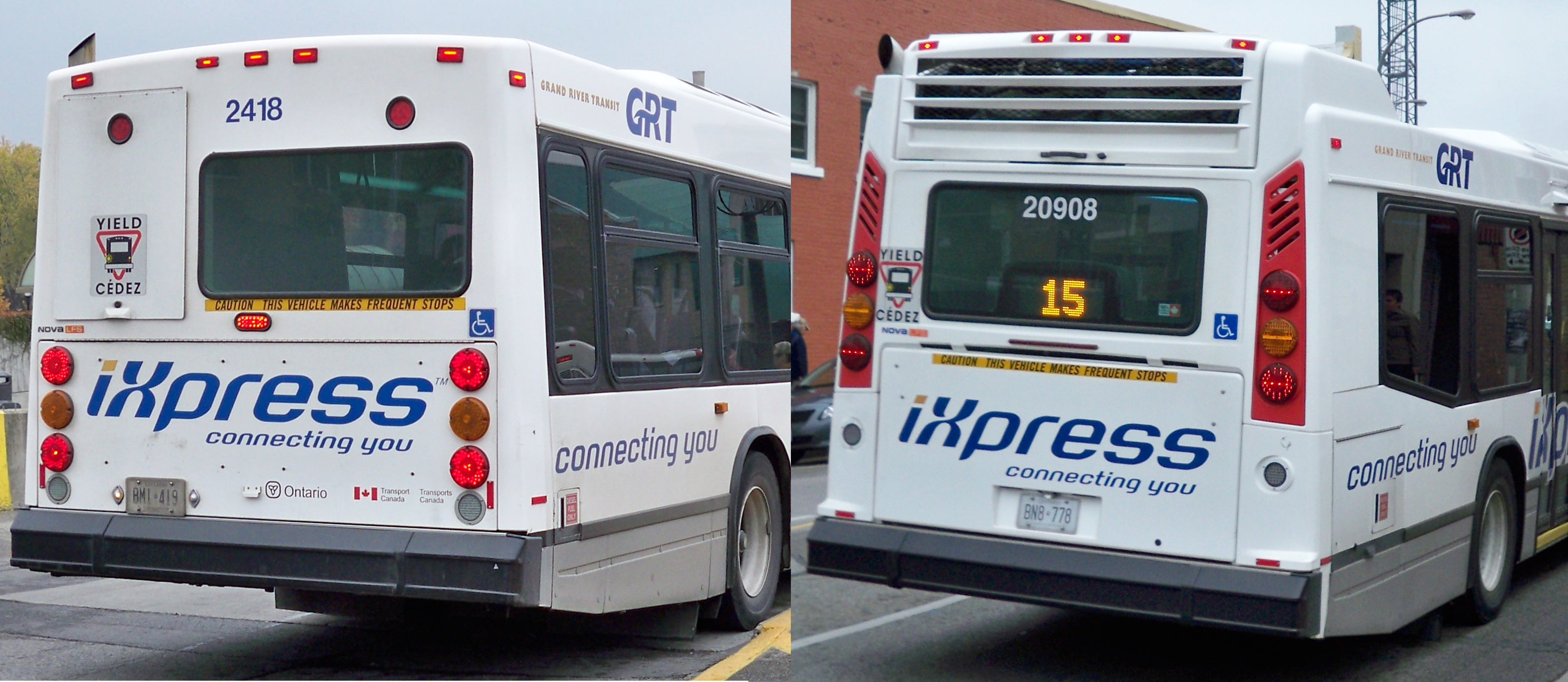 Rear views of differing models of Nova Bus LFS units; asymmetrical (pre-2009) on left, symmetrical (2009-) on right. Both buses are in the fleet of Grand River Transit (Waterloo Region, Ontario, Canada) in their iXpress livery.